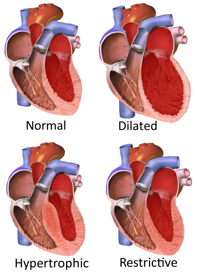 Types of cardiomyopathy